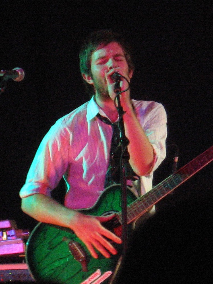 Rod Thomas performing for Trickledown 8 at Bush Hall in London